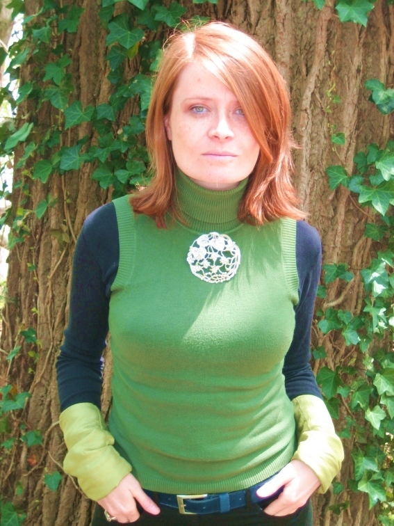 Elisa Biagini